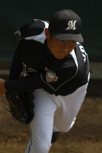 Yuji Yoshimi, pitcher of the Chiba Lotte Marines.